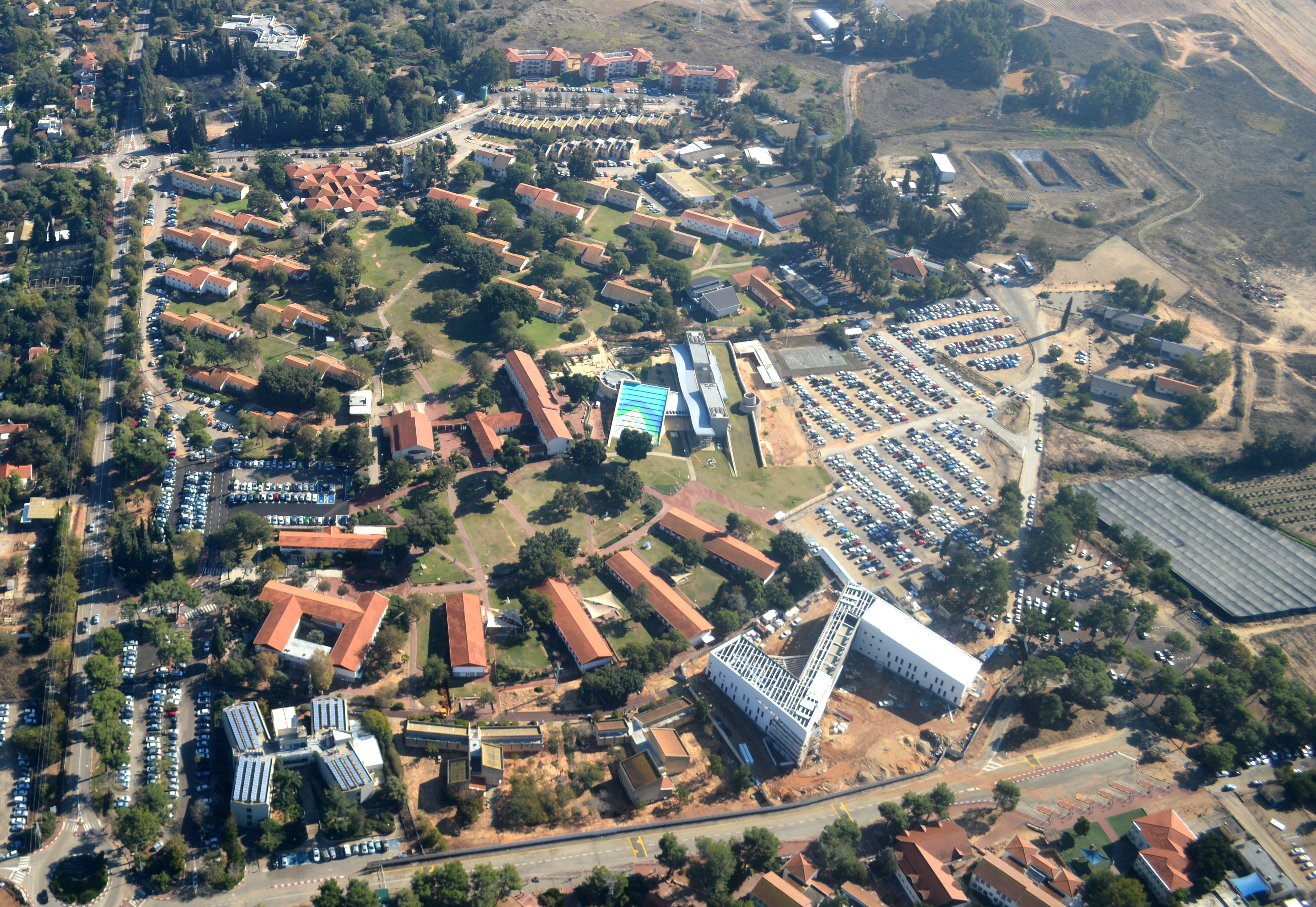 Rupin College Aerial View